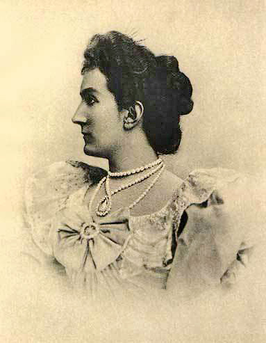 Princess Milica of Montenegro